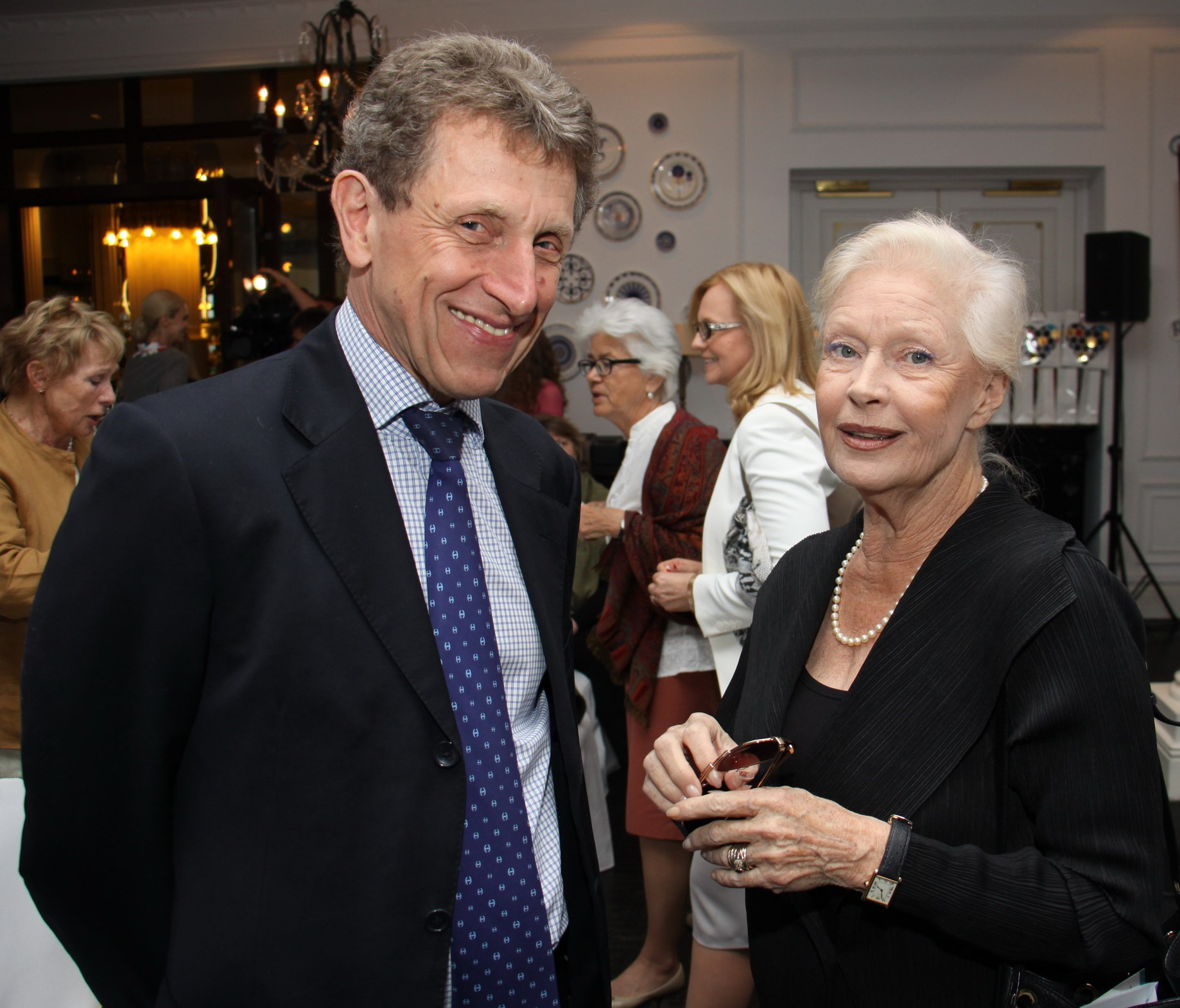 Beata Tyszkiewicz & French ambassador in Warsaw.